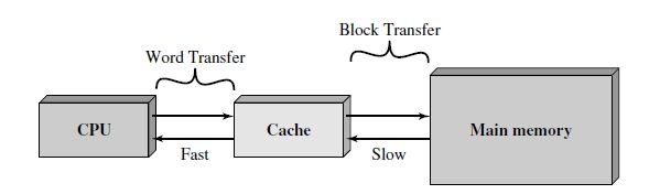 Cache and main memory